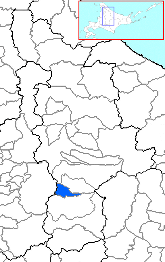 The location of Nakafurano in Kamikawa Subprefecture, Hokkaido Prefecture, Japan.